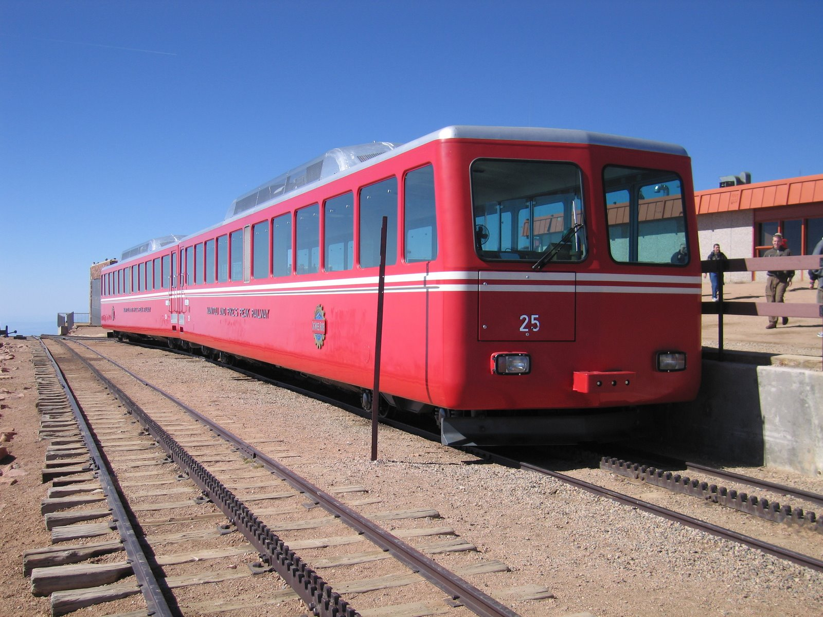 Manitou and Pike's Peak Railway